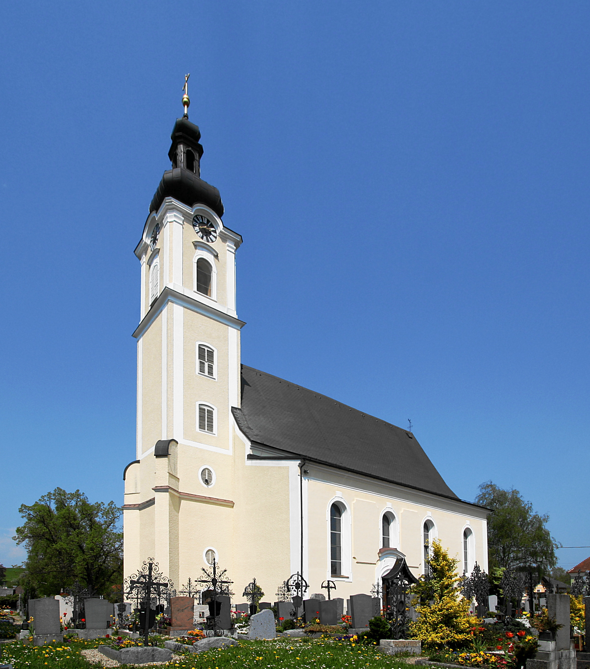 Parish church of Pram.